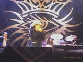 Bob Dylan in concert, playing harmonica. Norwich, Connecticut, USA